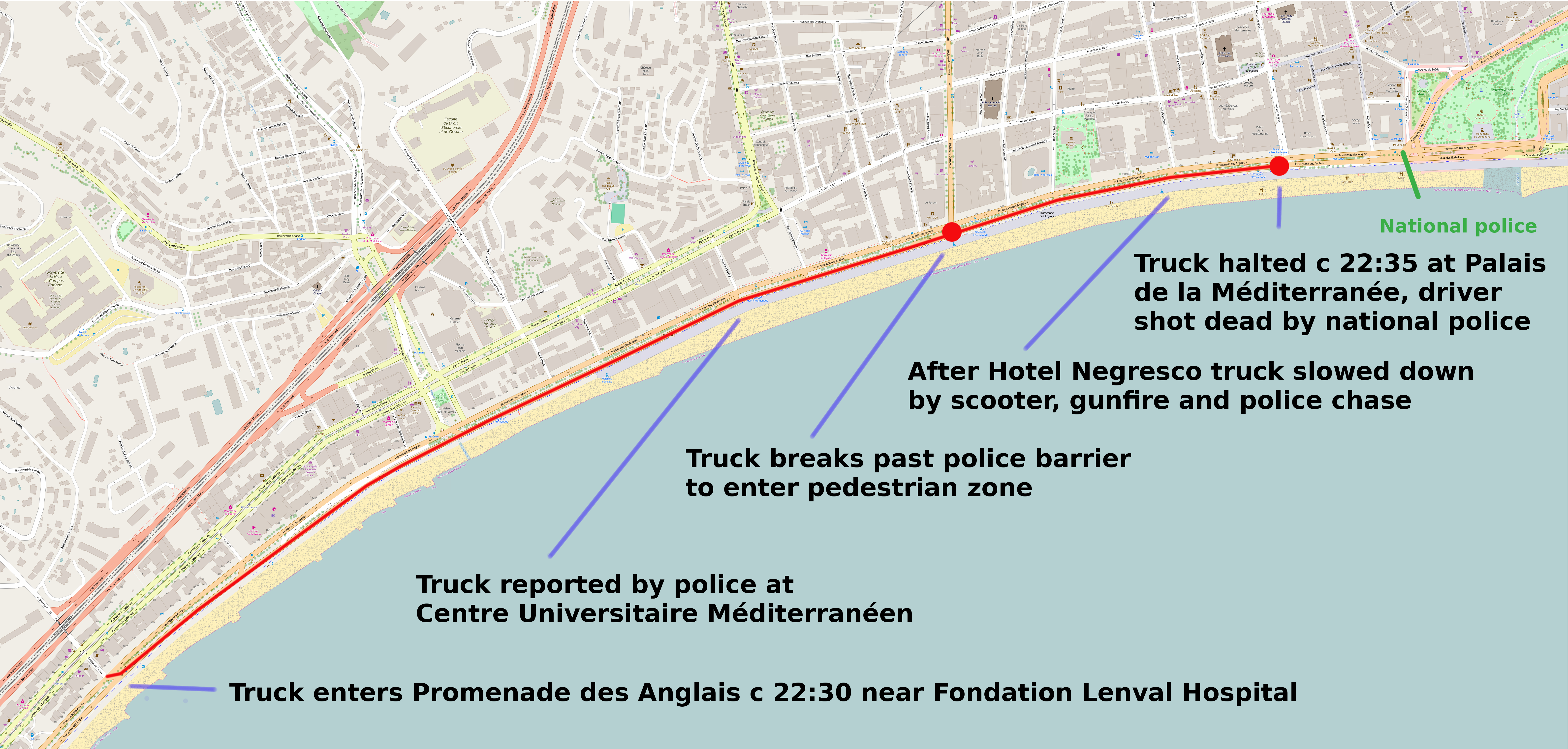 Annotated map showing approximate course of events in 2016 Nice attack (entry point Avenue de Fabron on Promenade des Anglais, national police stationed at intersection with Avenue de Verdun shot dead driver)